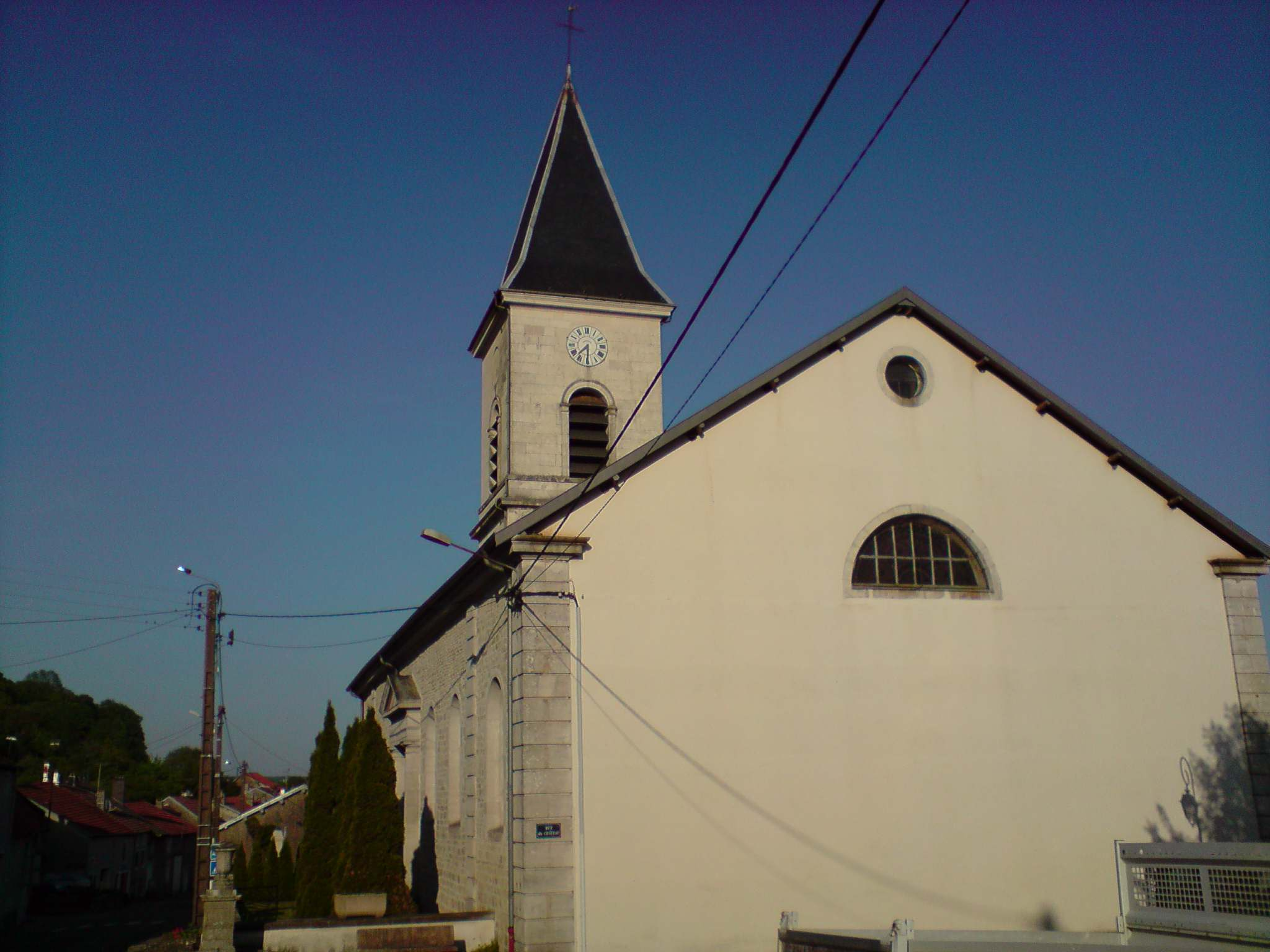 Church of the city of Romain-sur-Meuse, Haute-Marne, France.